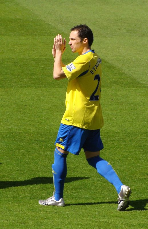 Matthew Etherington in Stoke City's away kit at a game against Fulham in 2009